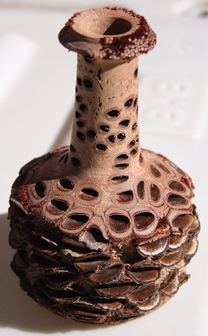 Woodworked Banksia grandis cone Photo Cas Liber